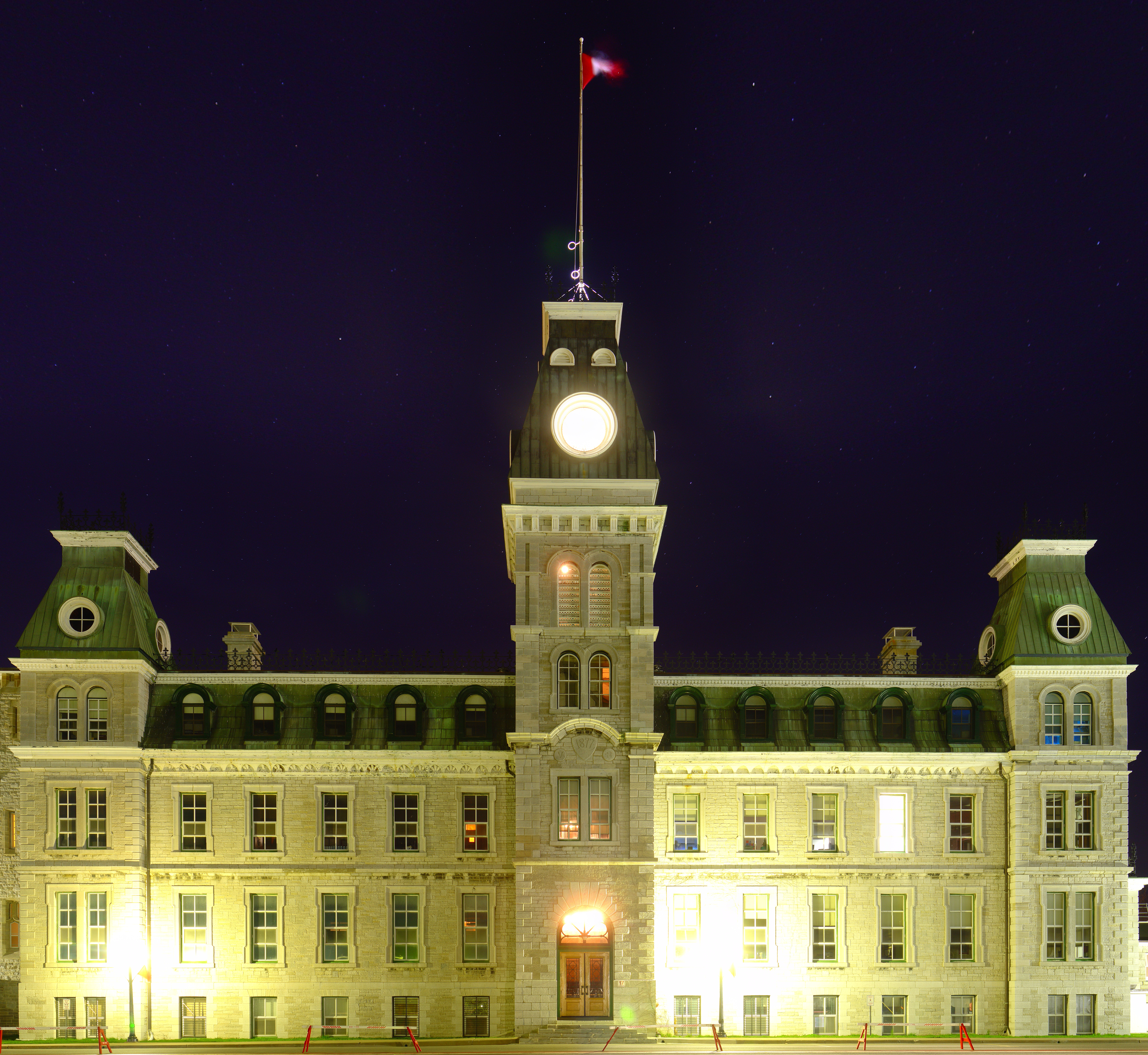 Please, have this description accessible to all by translating it in different languages.